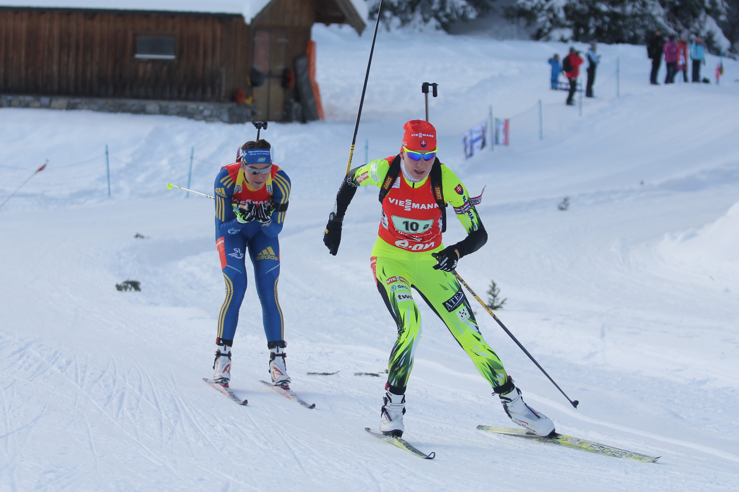 Kuzmina, Strömstedt at biathlon worldcup 2012 in Hochfilzen